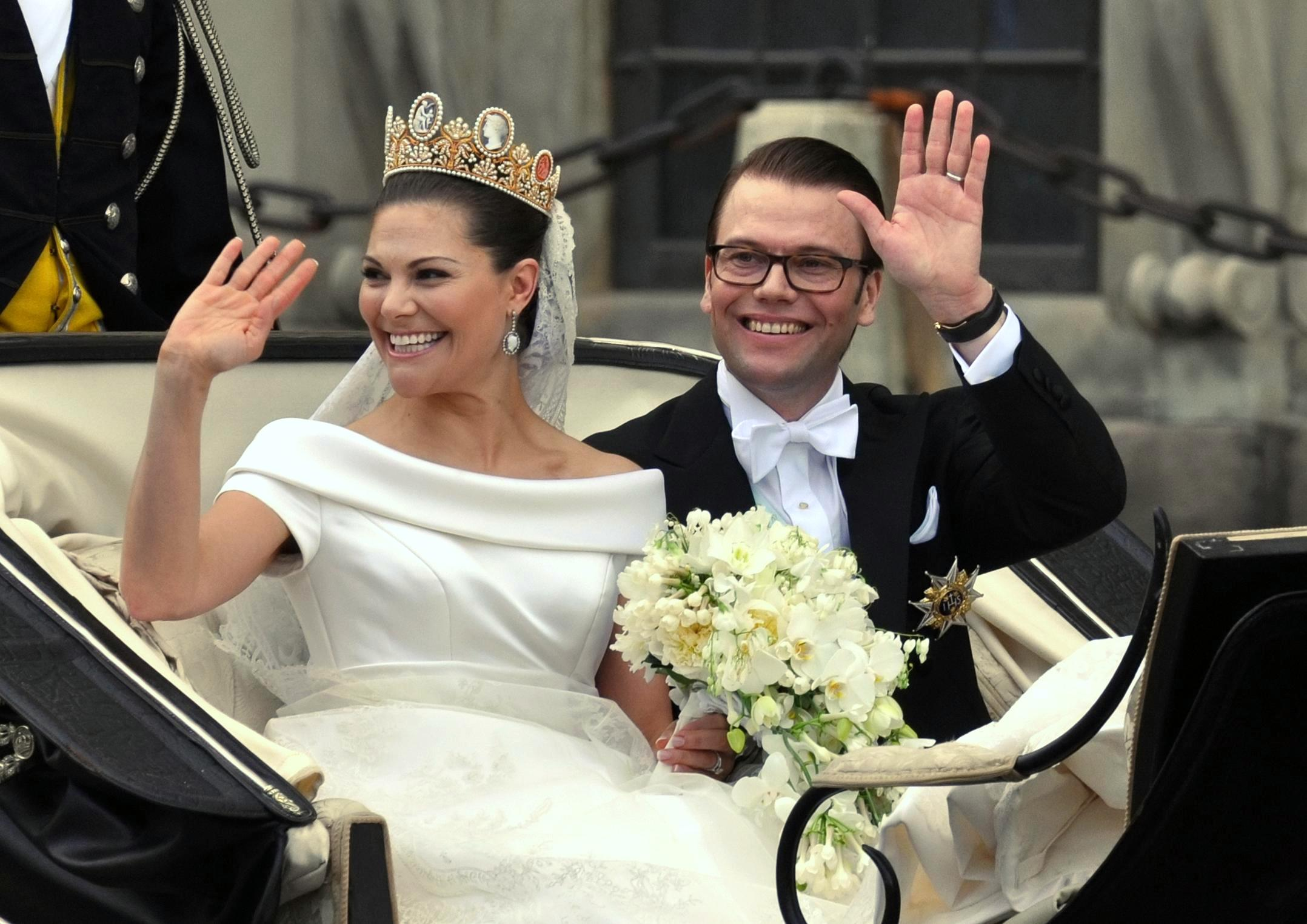 Wedding of Victoria, Crown Princess of Sweden, and Daniel Westling; Cortège at Slottsbacken